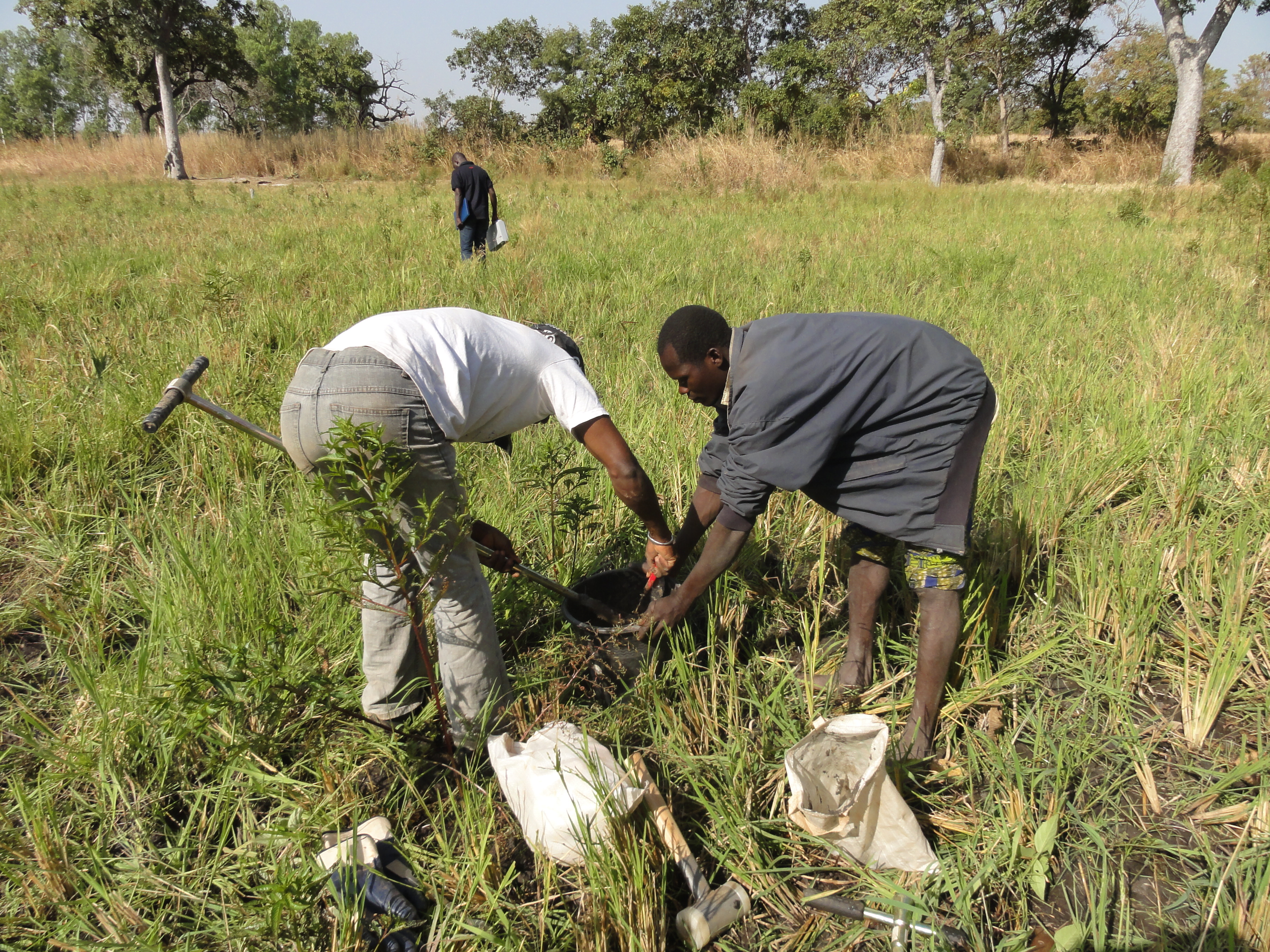 Rice cultivation in Benin